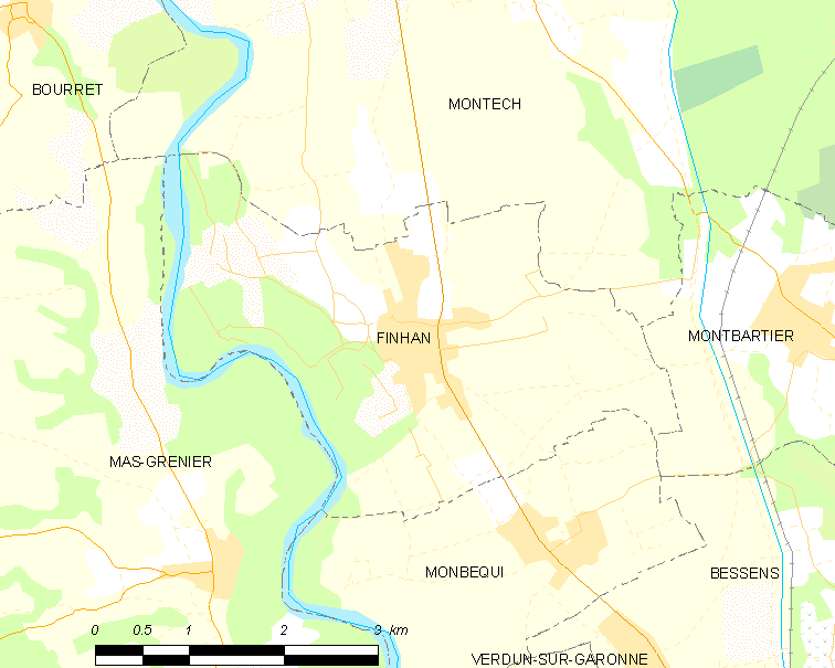 Map of French municipality Finhan